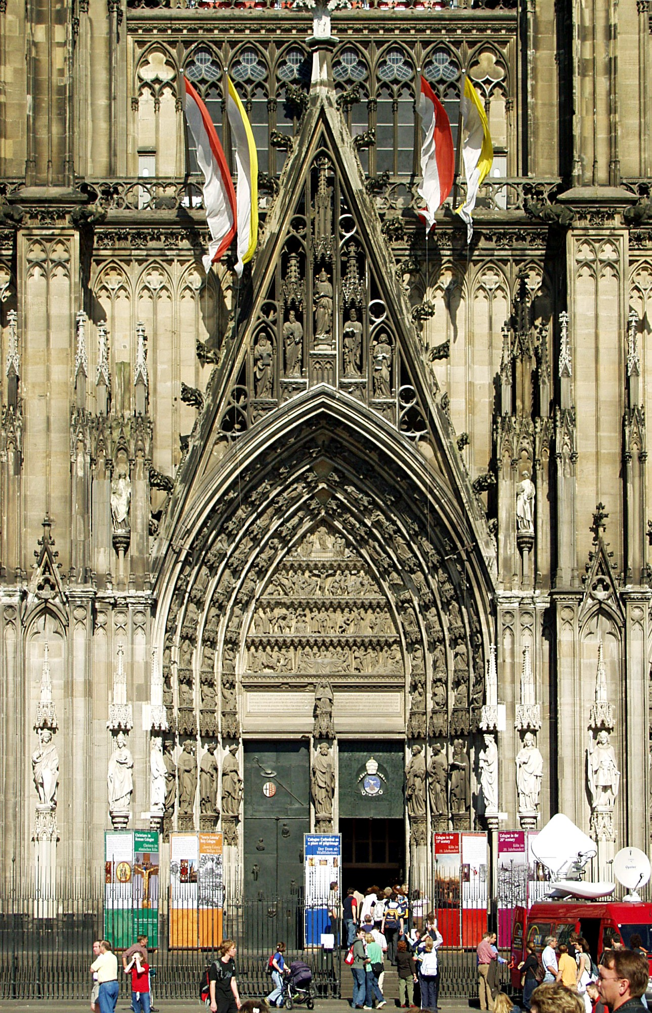 Southern porch of Cologne Cathedral during pilgrimage 2006